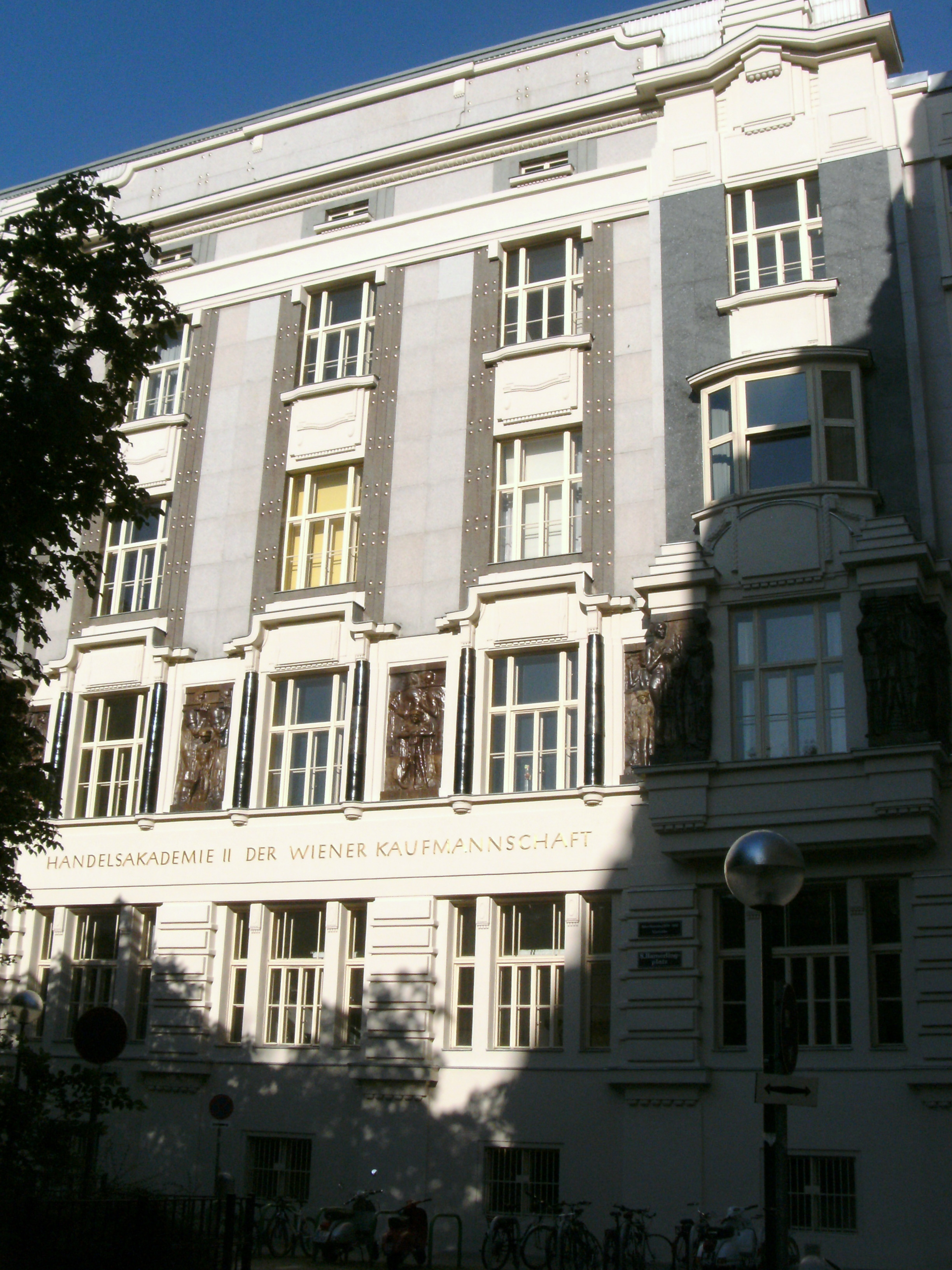 Neue Wiener Handelskademie (Vienna Business School) in Hamerlingplatz 5-6, Vienna's 8th district